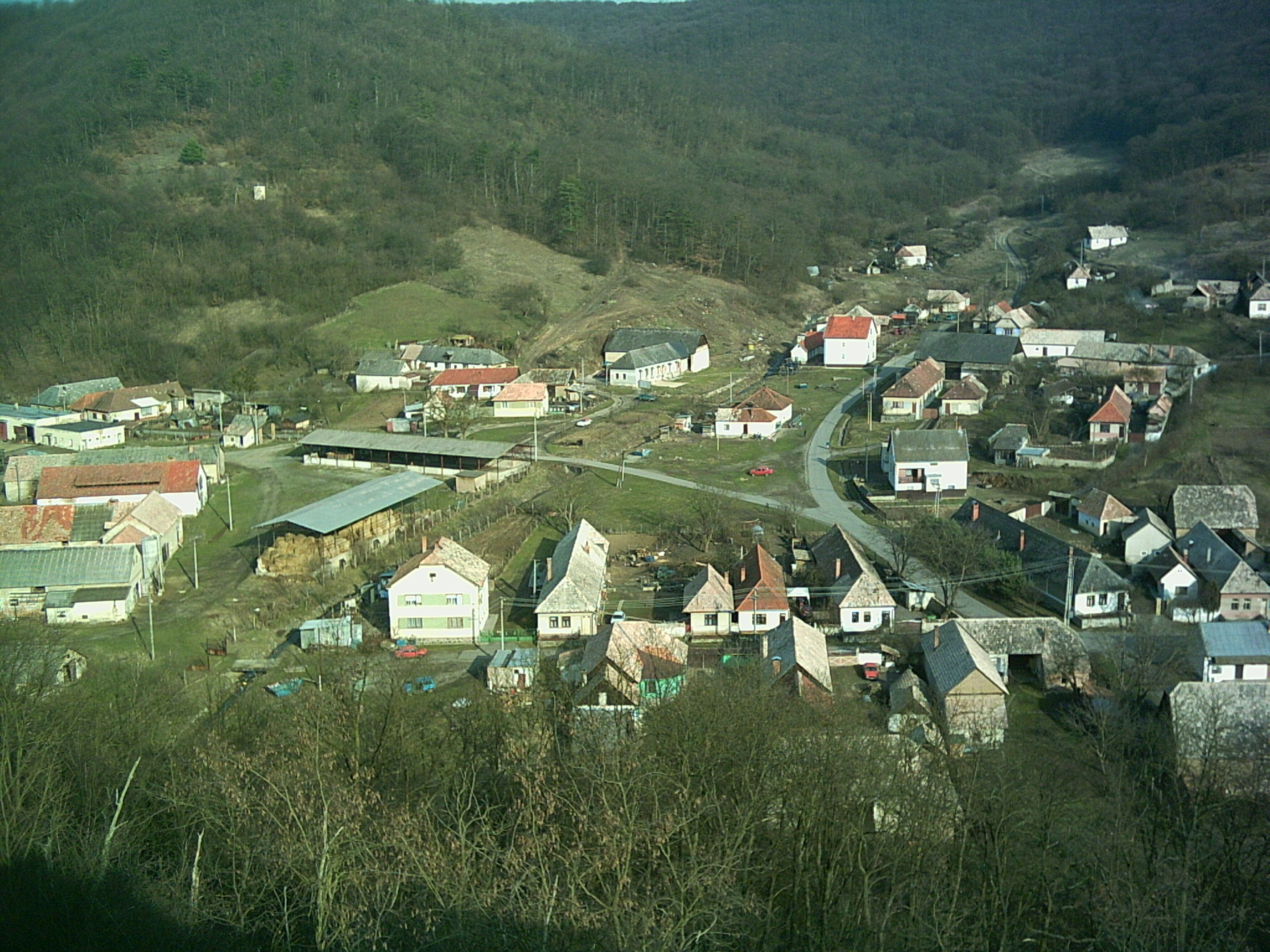 Medovarce